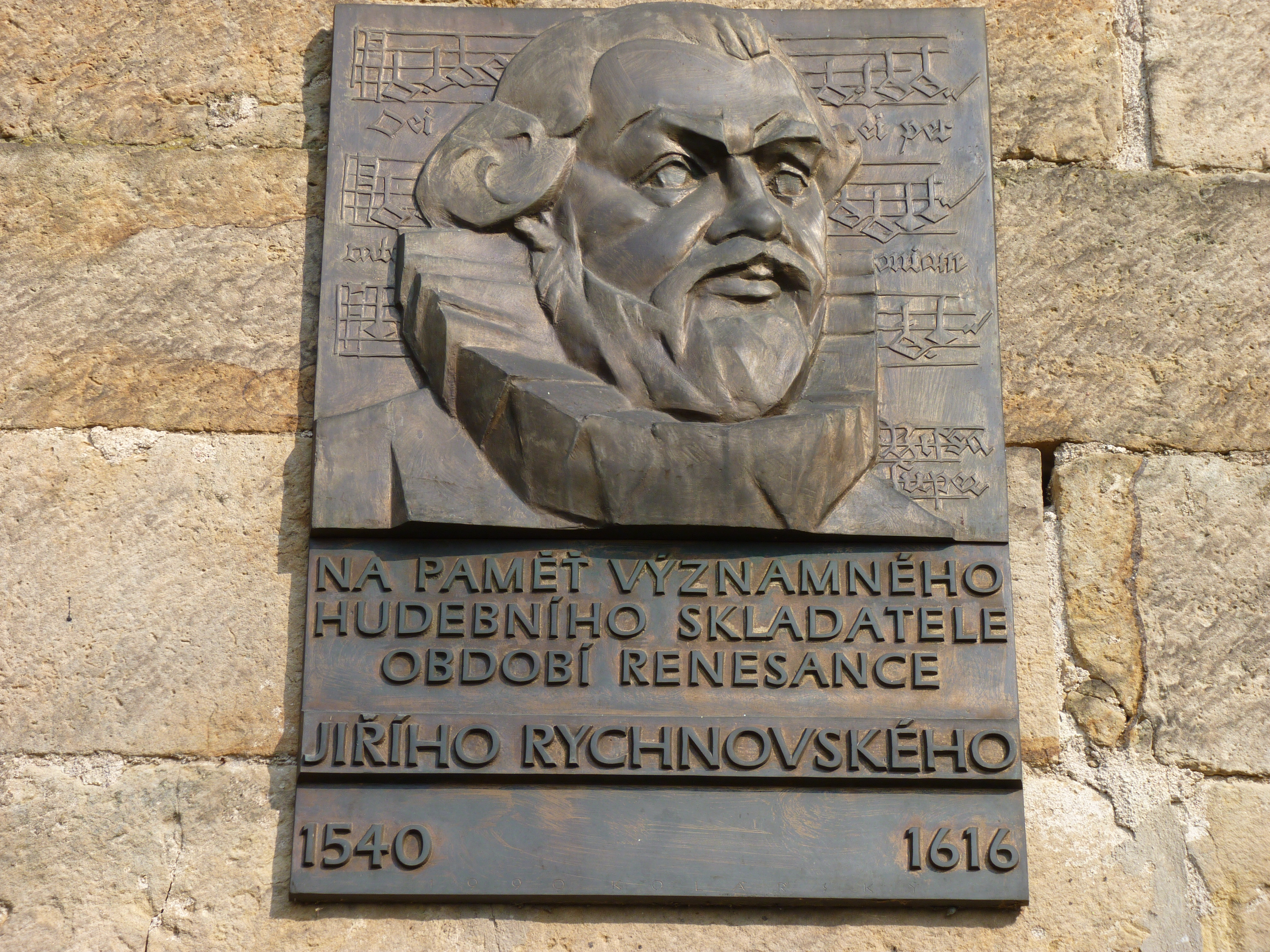 Czech composer Jiří Rychnovský (1540-1616)